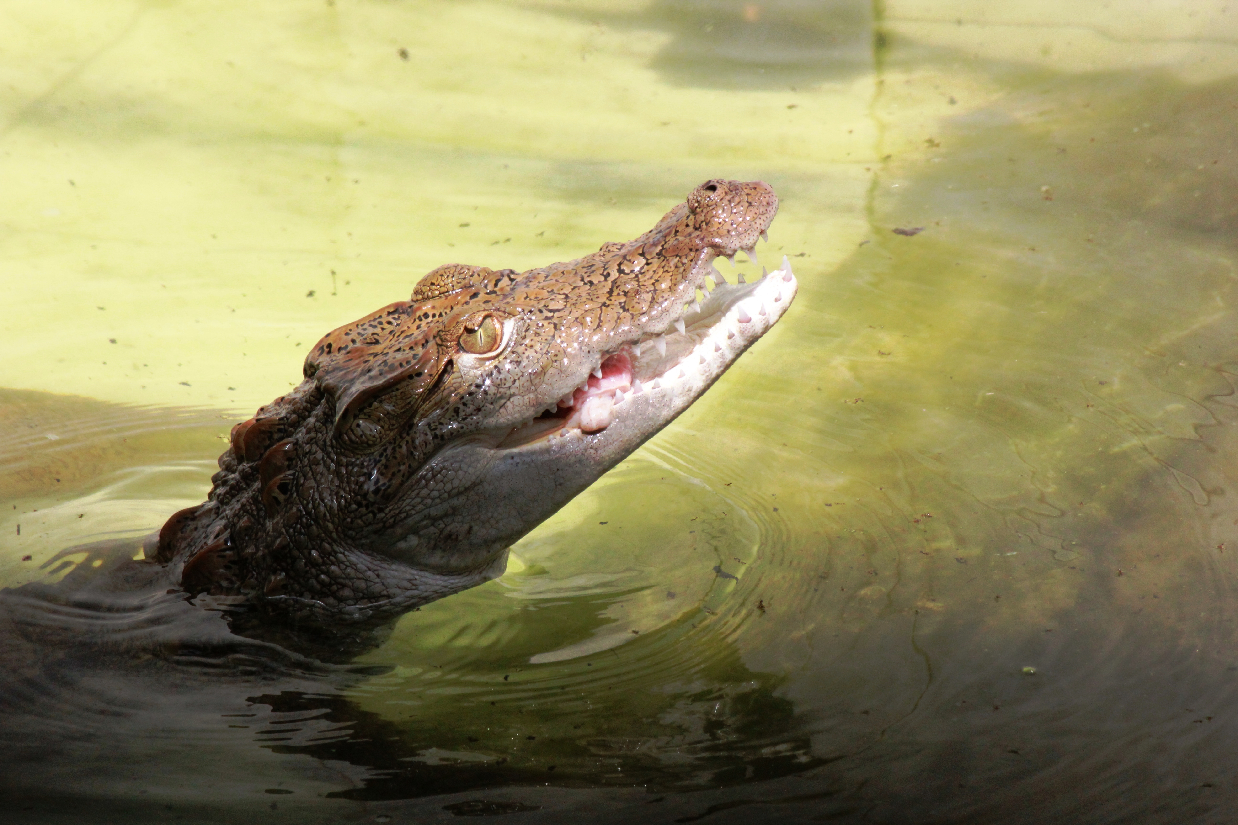 Author: Shajidul Alam Date: 7August, 2011 Original size: 1024×768 pixels